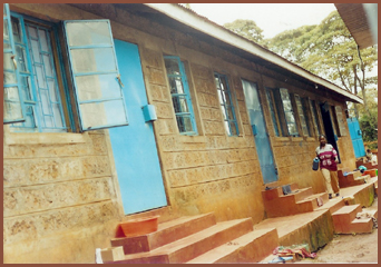 Halfway Home